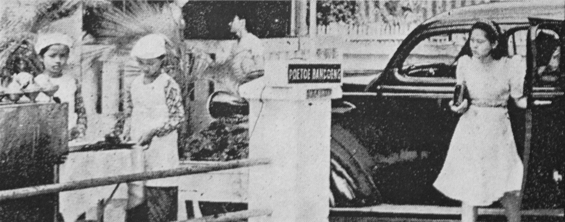 Scene from Asmara Moerni